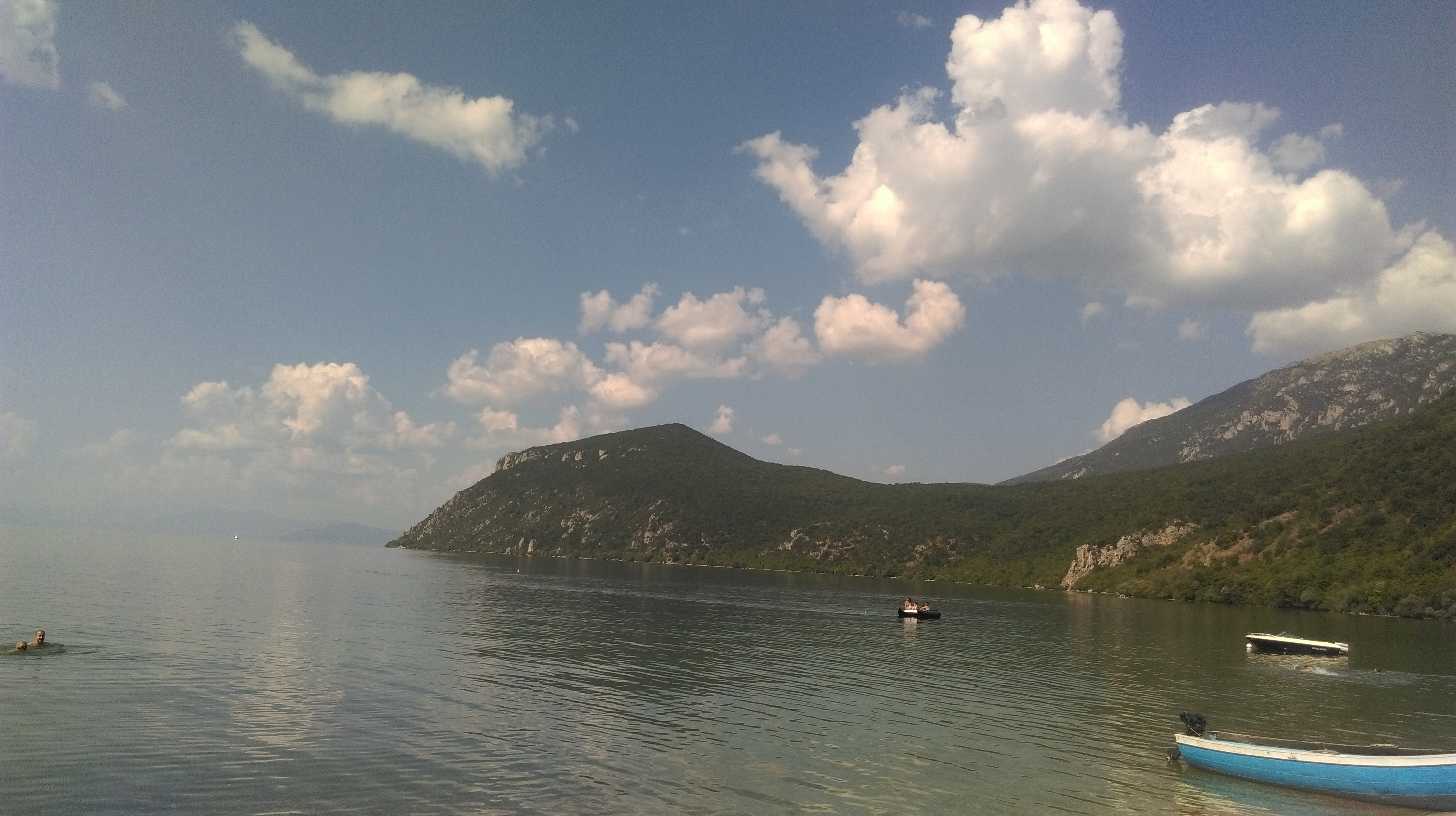 Ljubaništa